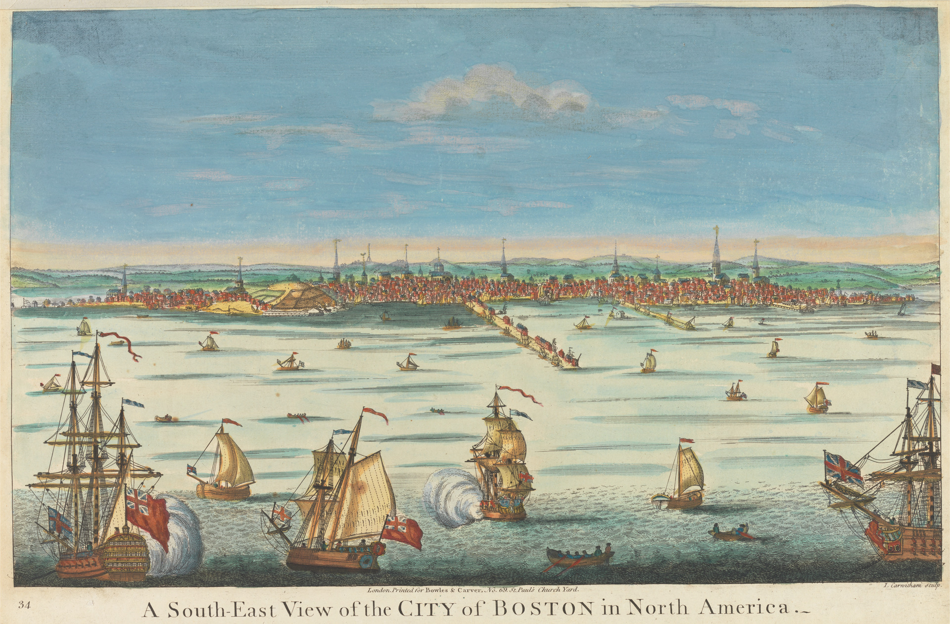 "A South-East View of the City of Boston in North America," by J. Carwitham (active 1720-1740), after an unknown artist. Hand-coloured engraving. Printed for Bowles & Carver, No. 69 St. Paul's Church Yard, London. Courtesy of the Paul Mellon Collection, Yale Center for British Art, Yale University, New Haven, Connecticut.